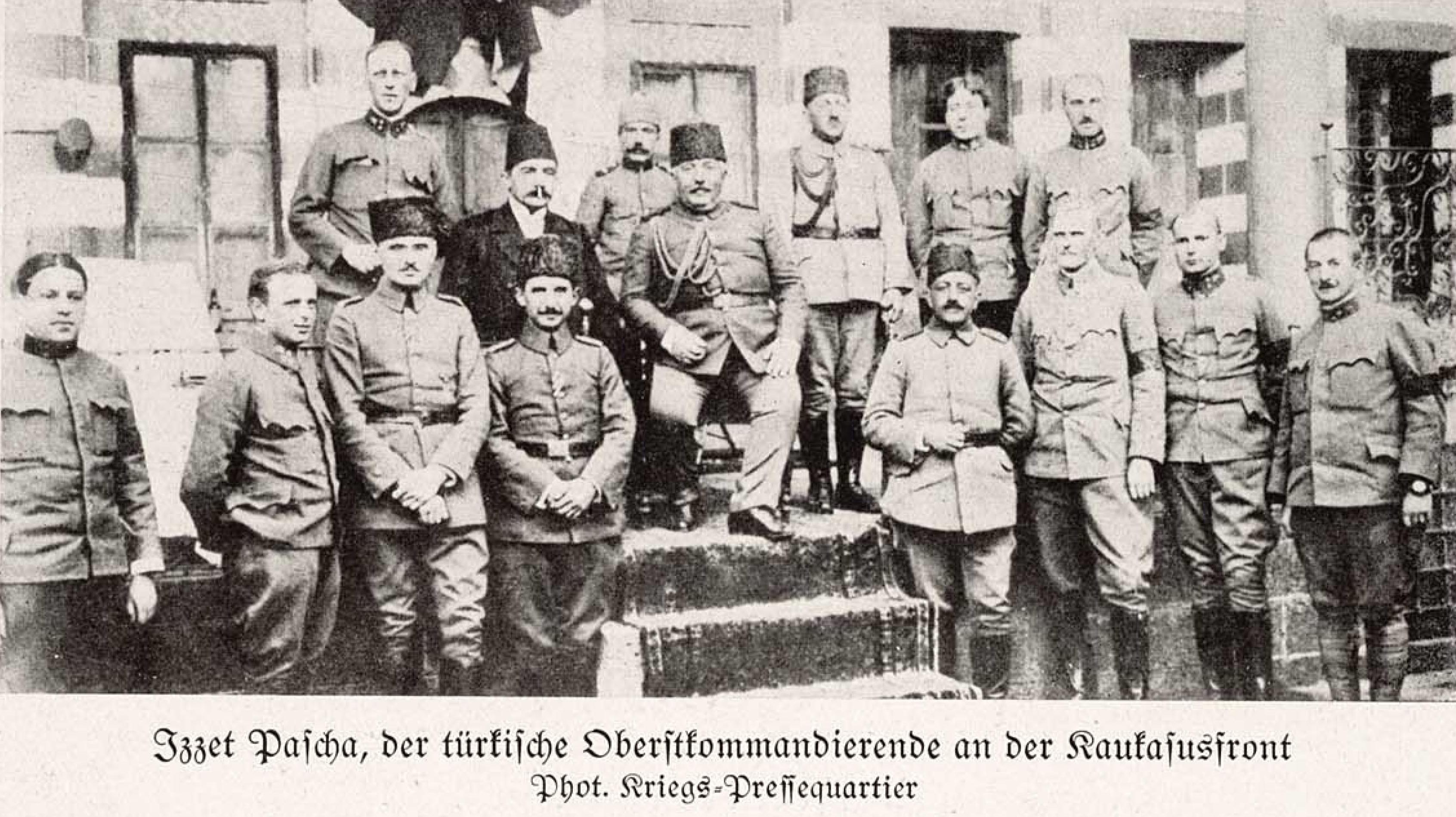 Ahmed İzzet Pasha, Ottoman commander in the Caucasus